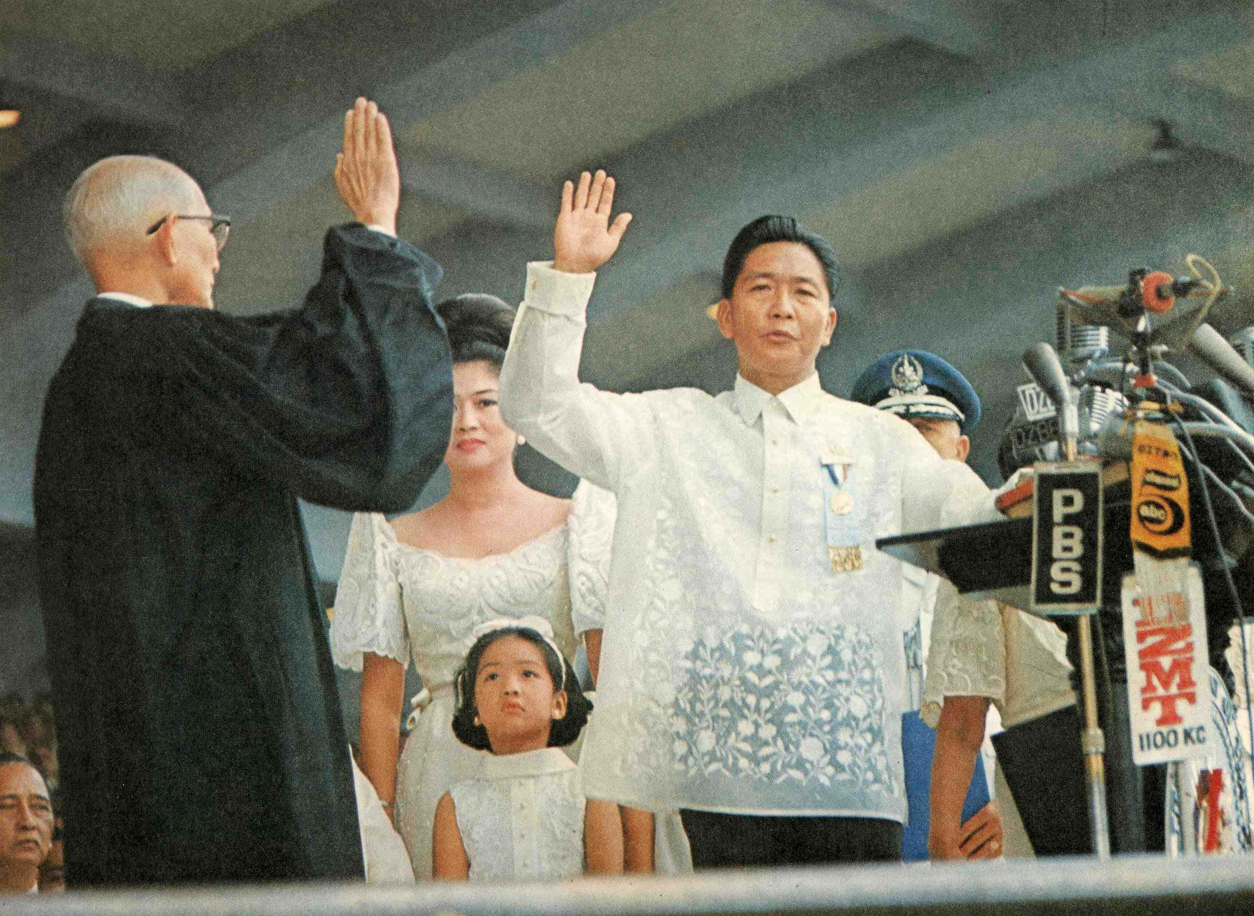 The second inauguration of President Ferdinand Marcos on December 30, 1969